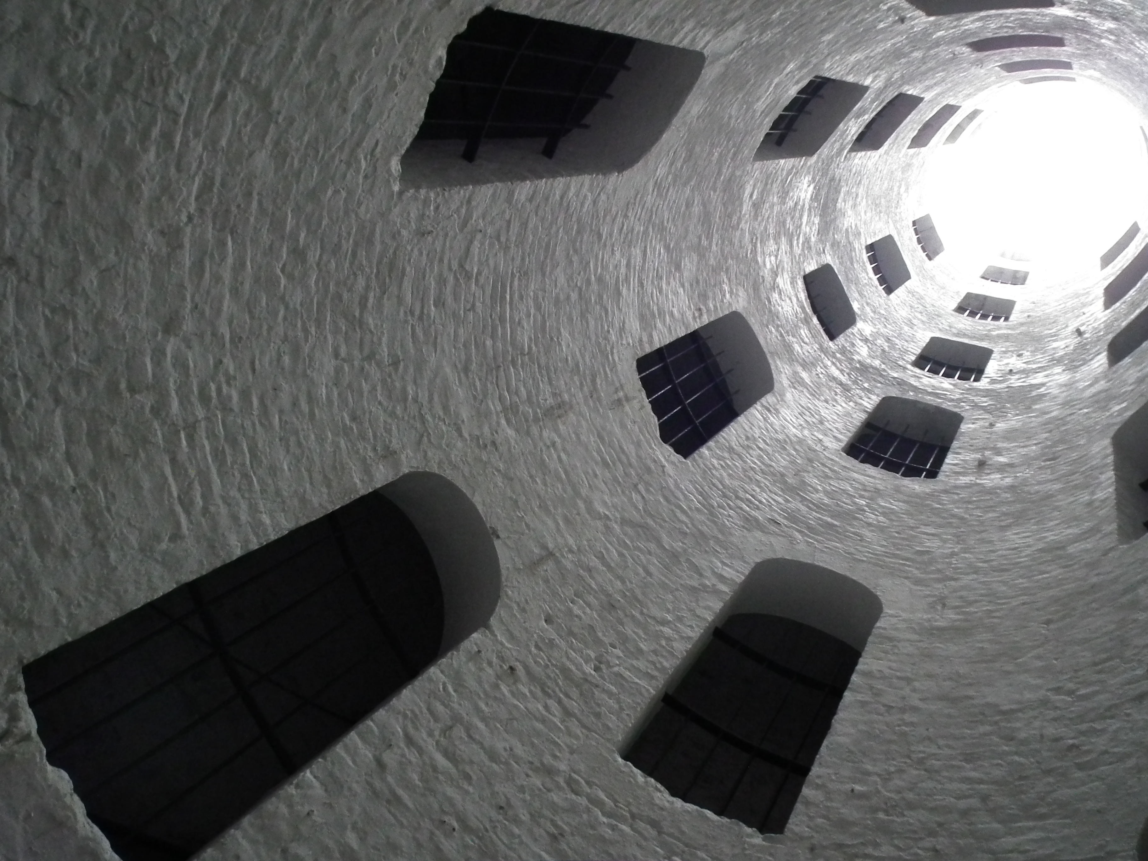 Underground spiral stair, Dover. 1803-05, by Sir Thomas Hyde Page, RE, under Lt Col William Twiss, RE Divisior Engineer. Brick and cast-iron. Three concentric flights of winder stairs round an open shaft, the opening at the top, with curved stairs meeting in a single flight up to the former parade ground in front of the barracks. Grade II listed.